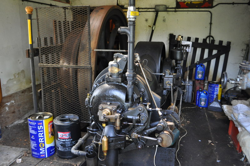 Denver Mill - Blackstone Engine, near to Denver, Norfolk, Great Britain. A single cylinder open crank oil engine which ran on diesel or heavy oil. Usually at 180psi she ran the 'steam plant' from 1932 until 1969 6 days a week. The engine replaced an earlier steam engine for the steam mill in the adjacent room.